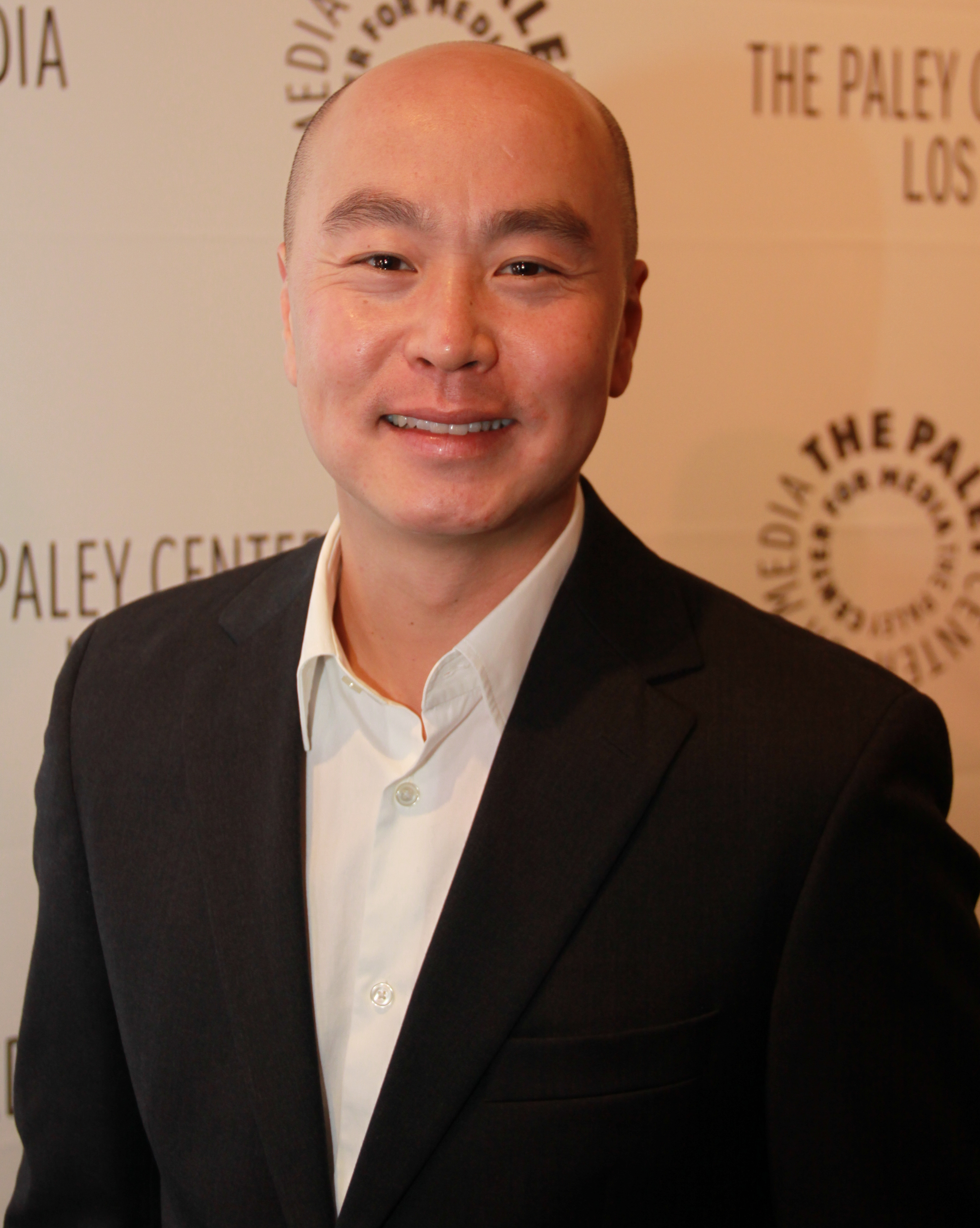 C.S. Lee at PaleyFest2010's "Dexter" night at the Saban Theatre on March 4th, 2010.